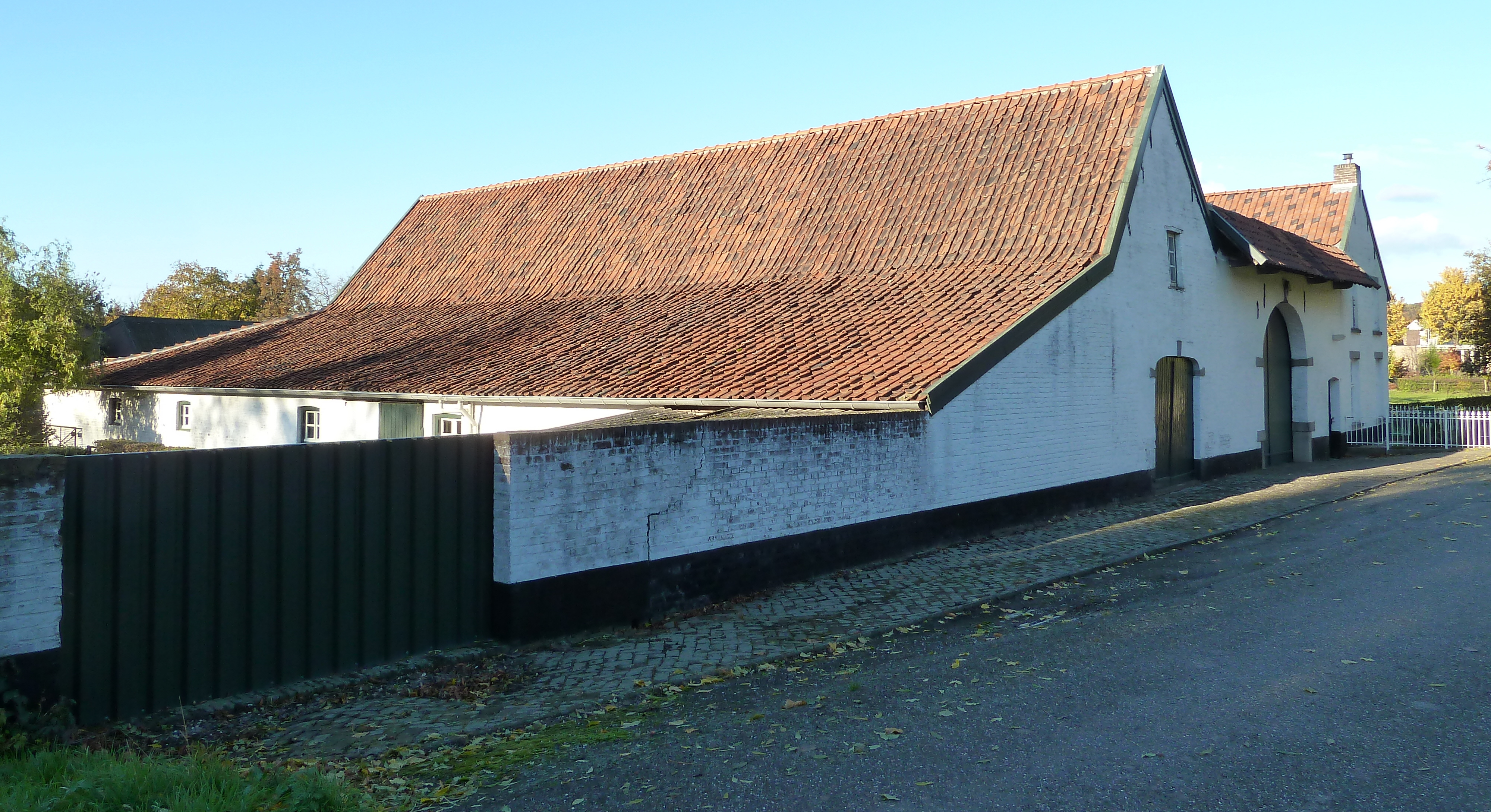 Weert 93, Bunde, Limburg, the Netherlands